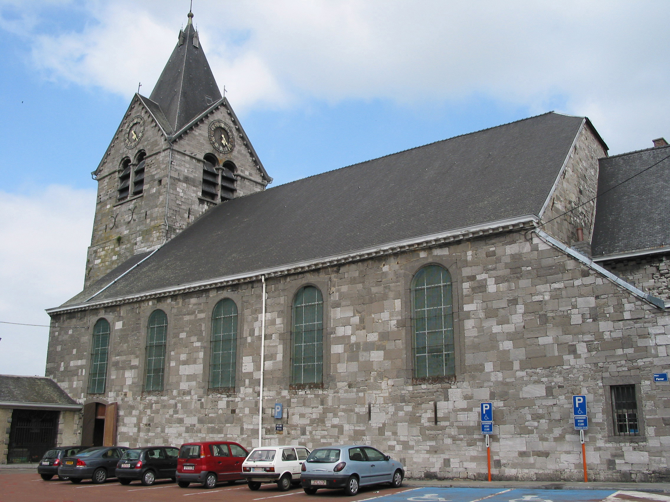 the St. Victor church (XVIII-XIXth century), Fleurus, Belgium